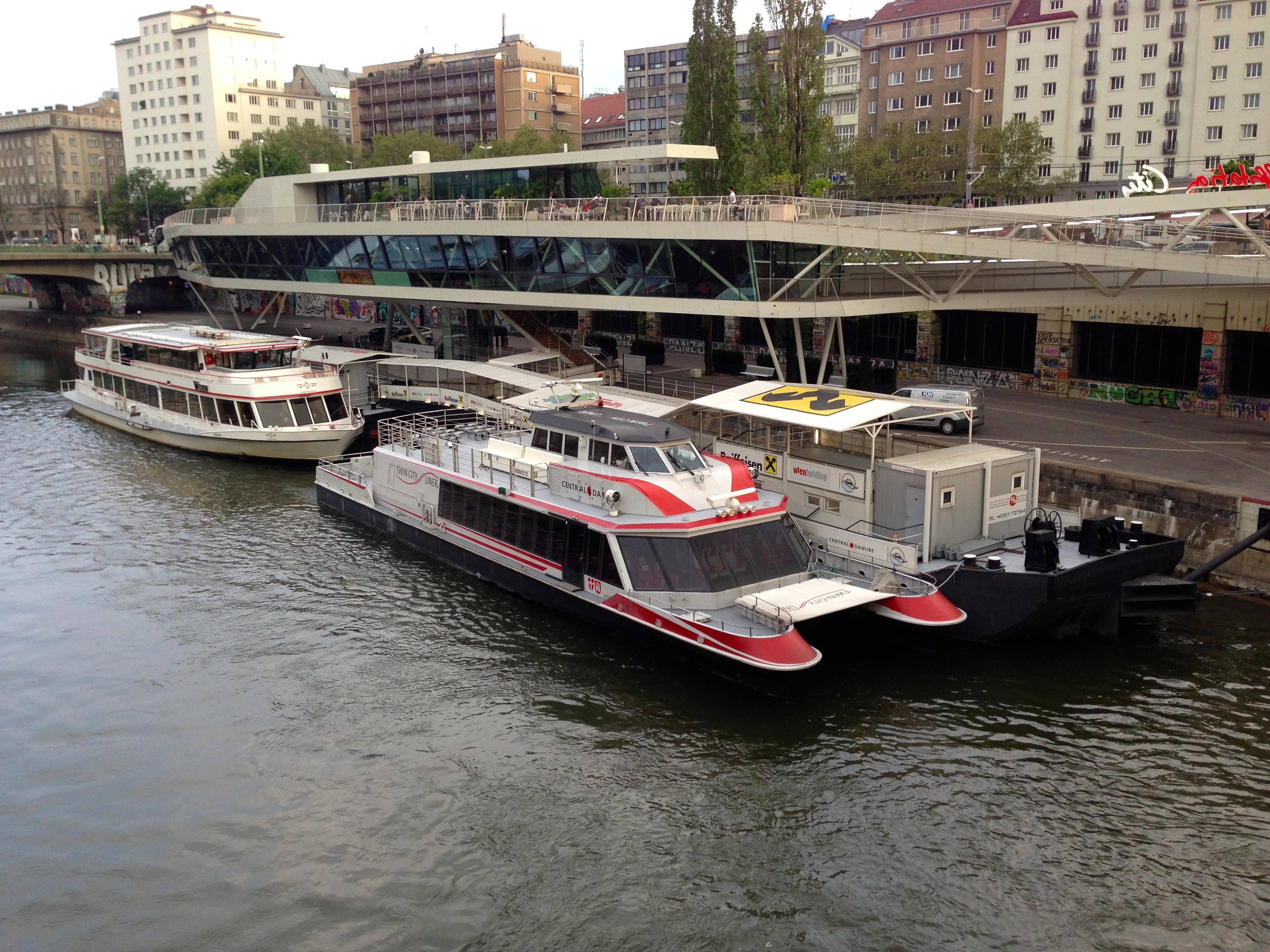 Twin City Liner - Vienna Terminal